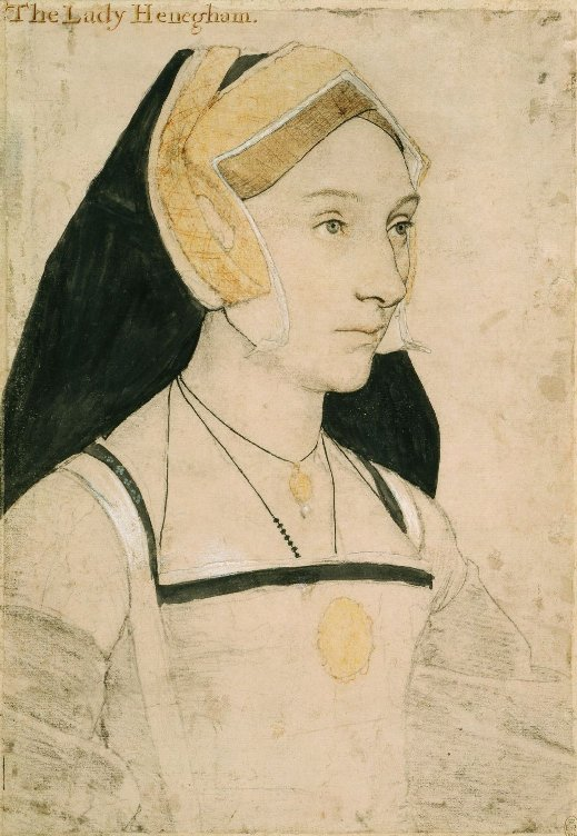 Portrait of Mary, Lady Heveningham. Coloured chalks, pen and Indian ink, wash, white bodycolour, 30.3 × 21.1 cm, Royal Collection, Windsor Castle. This drawing has been reworked by other hands than Holbein's. Art historian K. T. Parker called the black fall of the headdress "daubed over" (Parker, p.46). The drawing has also been heavily rubbed. Parker detected Holbein's remaining strokes in the outline of the décolletage and in the sleeves. The sitter has been speculated as the same as that in Holbein's English Lady at Winterthur, but the connection is doubtful. Lady Heveningham's identity is not certain: she has been thought to be either Mary Shelton (d. c. 1570), daughter of Sir John Shelton and second wife of Sir Anthony Heveningham, or Anthony Heveningham's mother, who was also a member of the Shelton family. The inscription, added later, is not necessarily reliable. Reference K. T. Parker, The Drawings of Hans Holbein at Windsor Castle, Oxford: Phaidon, 1945, OCLC 822974.